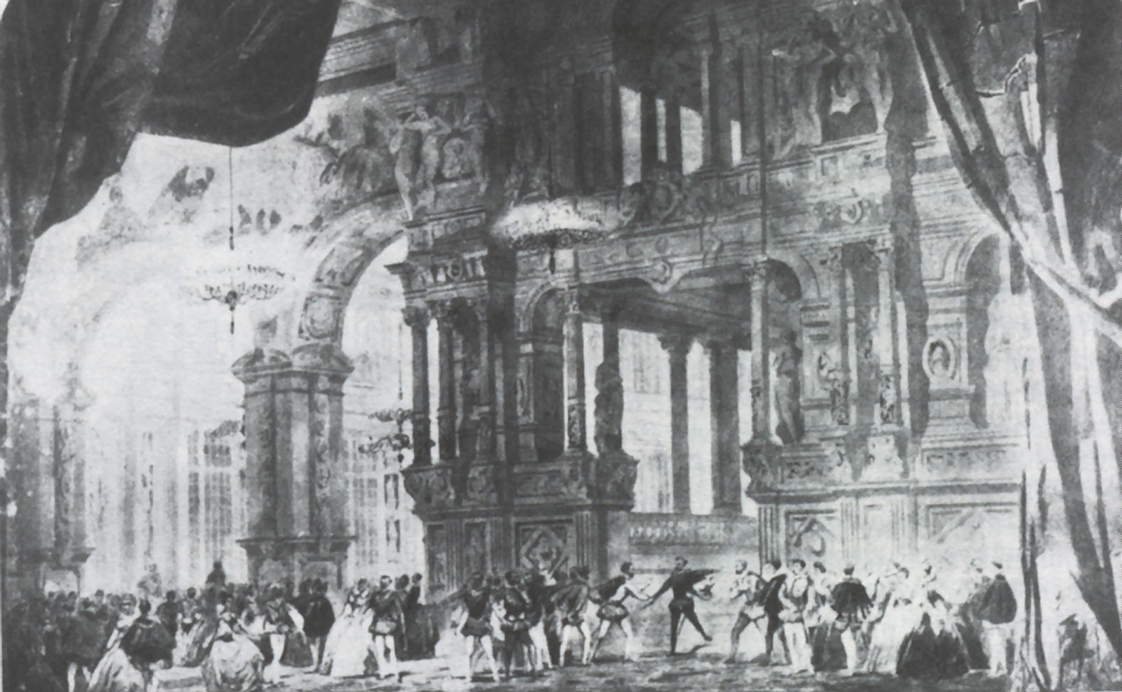 Les Huguenots: opera set for the first scene of the fifth act (1836)